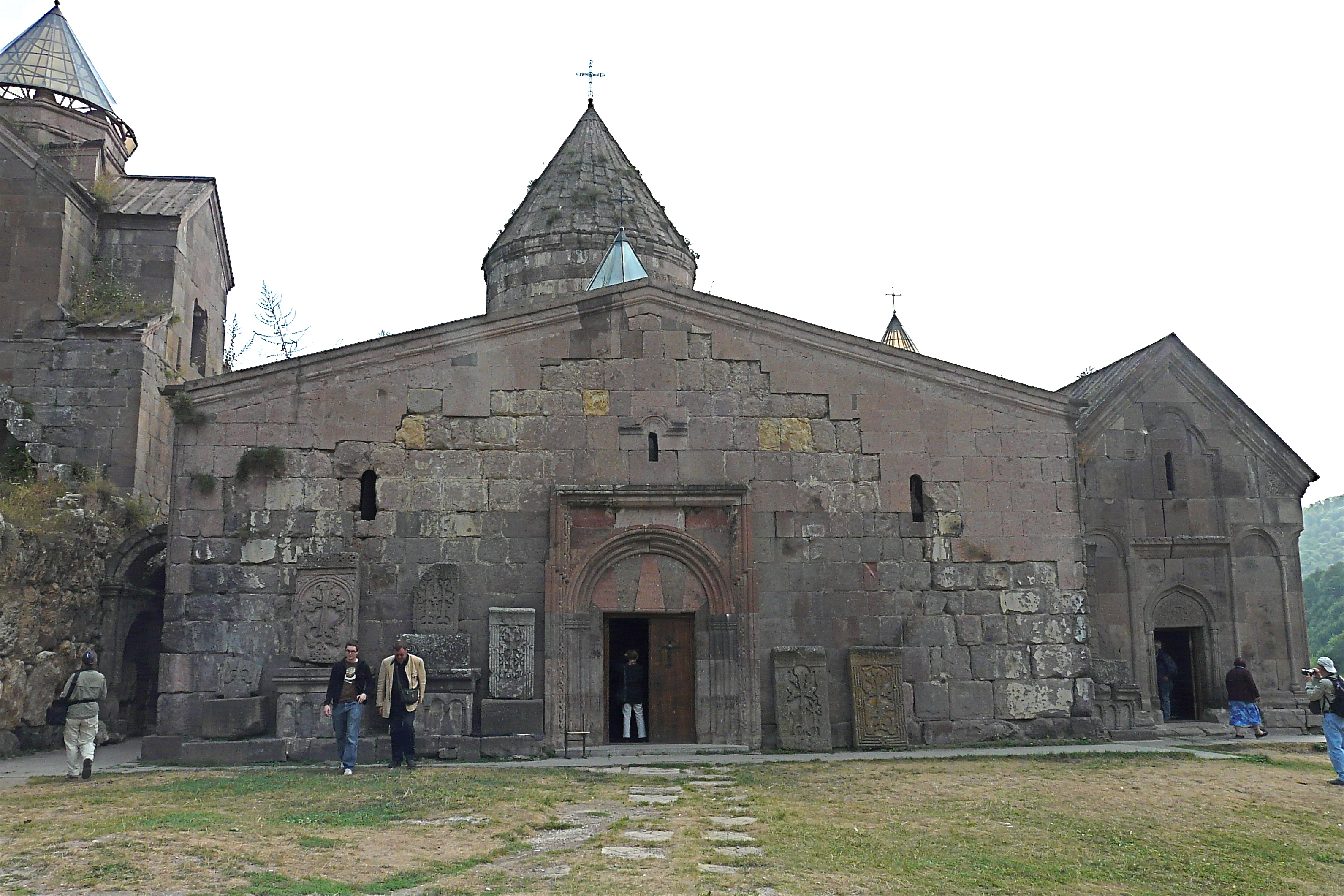 Gavit, Goshavank, Armenia.